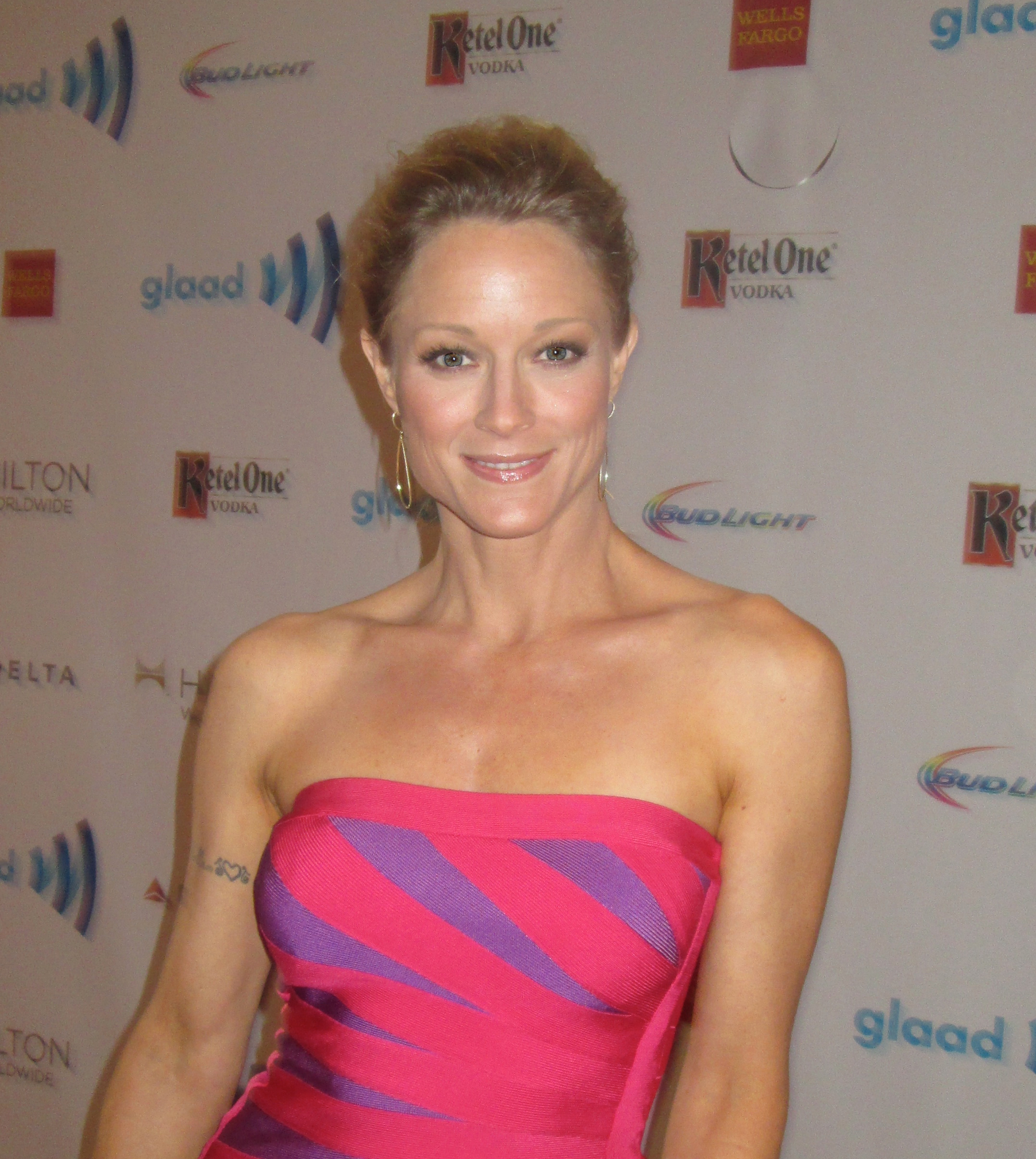 Polo at the 2014 GLAAD Media Awards